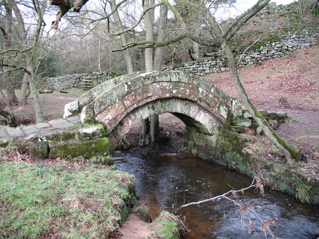 Packhorse bridge spanning Padside Beck, also called Fall Beck, at Thornthwaite, North Yorkshire